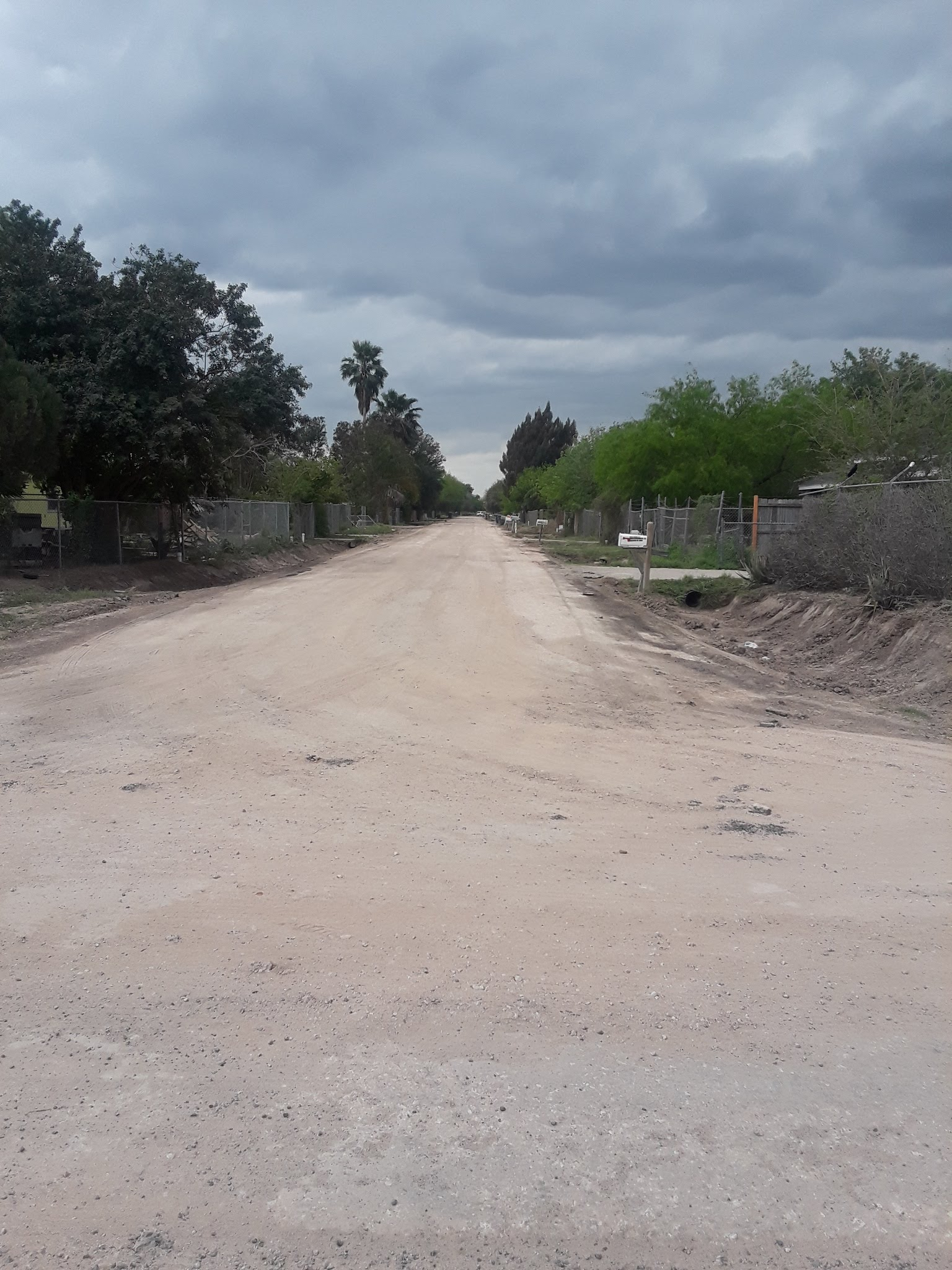 This is a dirt road in a colonia in the Rio Grande Valley of South Texas.